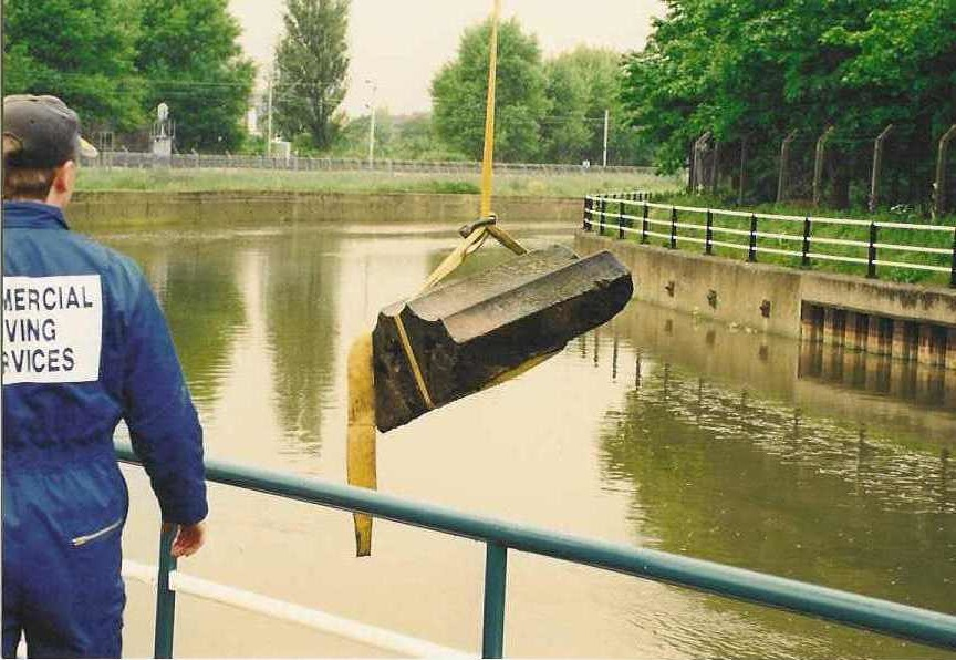 A piece of one of the columns of the Euston Arch is recovered from the Prescott Channel in East London, 1996.